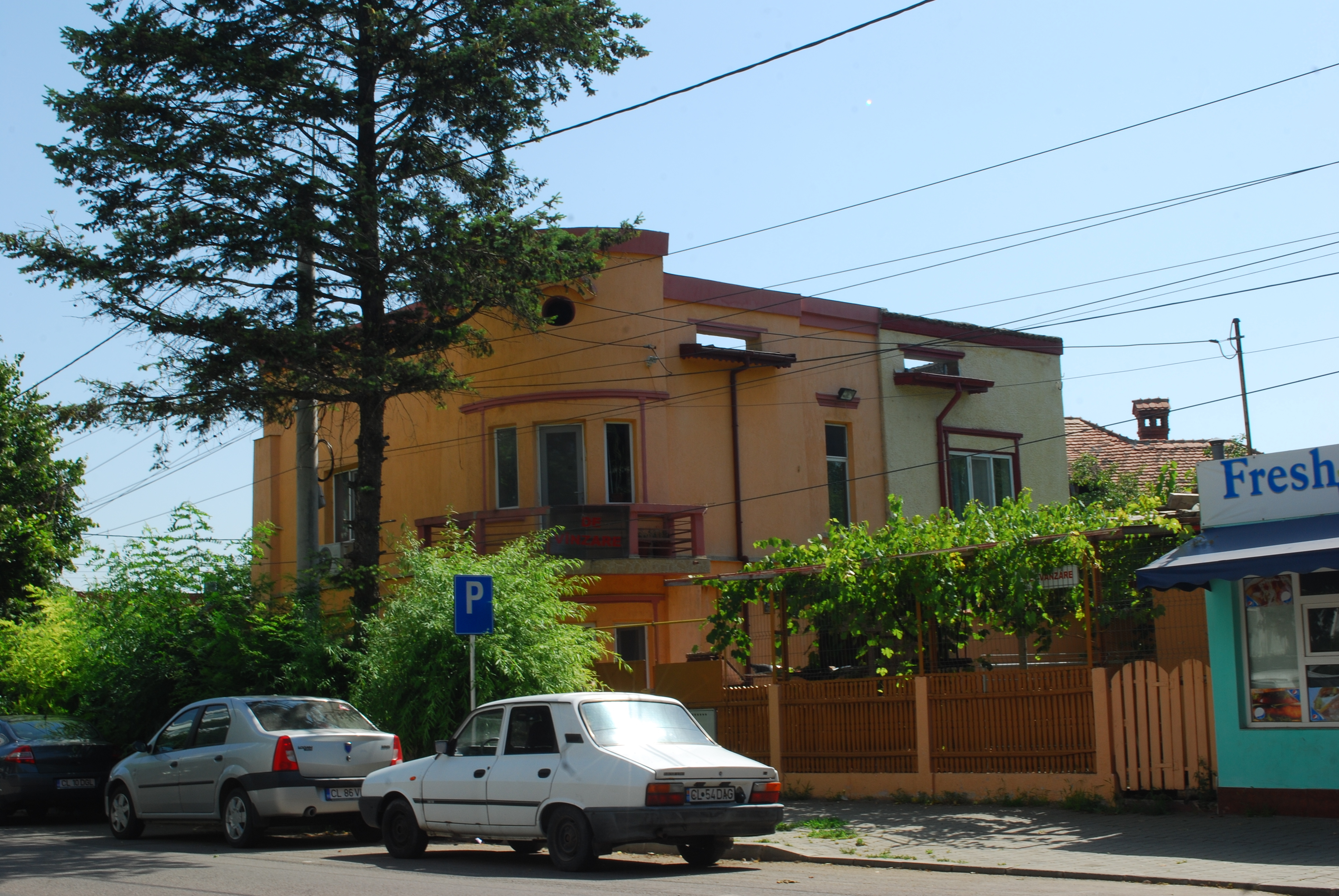 Dumitru Bâzu house in 38 Eroilor street, Călărași, Romania